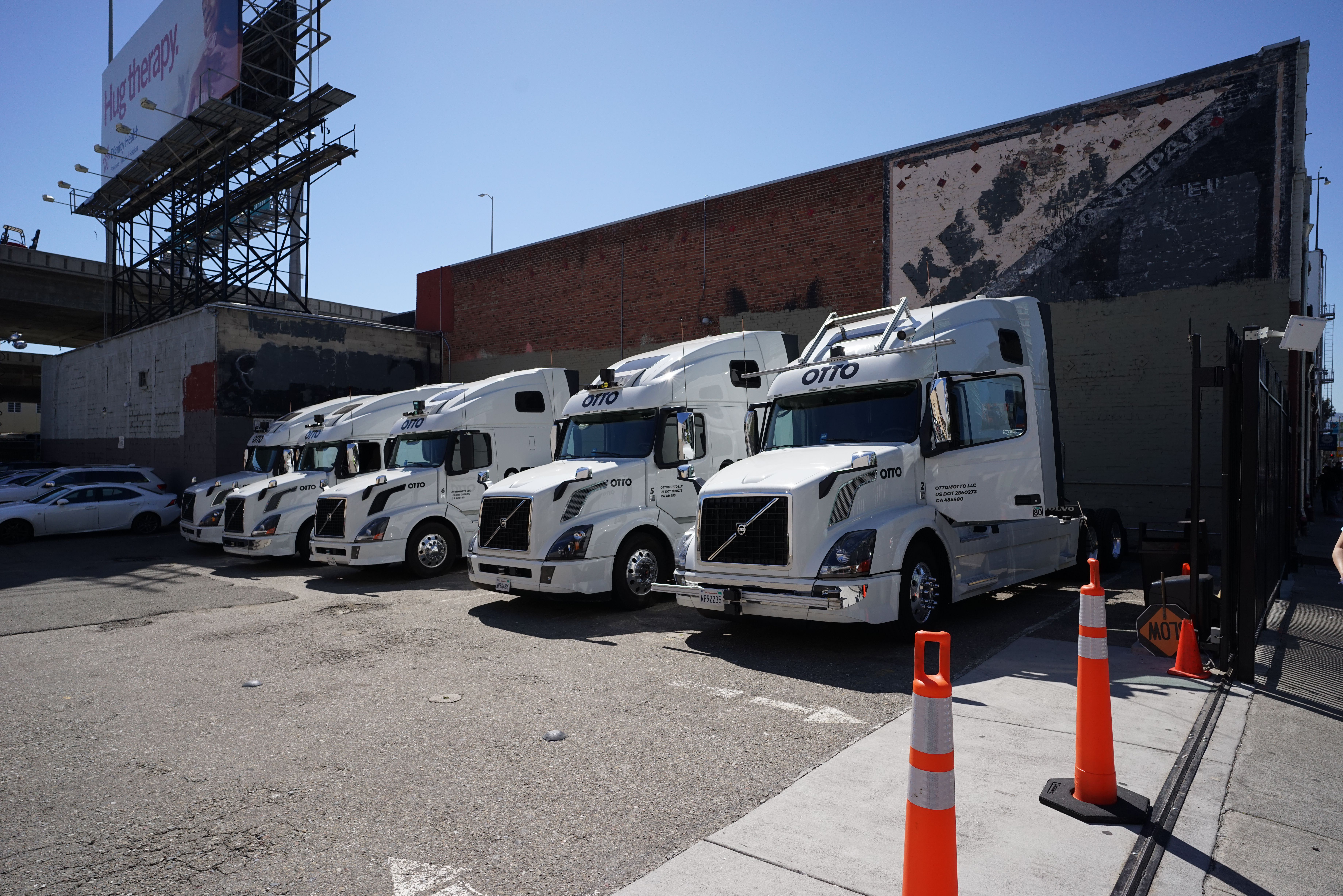 Trucks of Otto, an autonomous trucking company acquired by Uber.